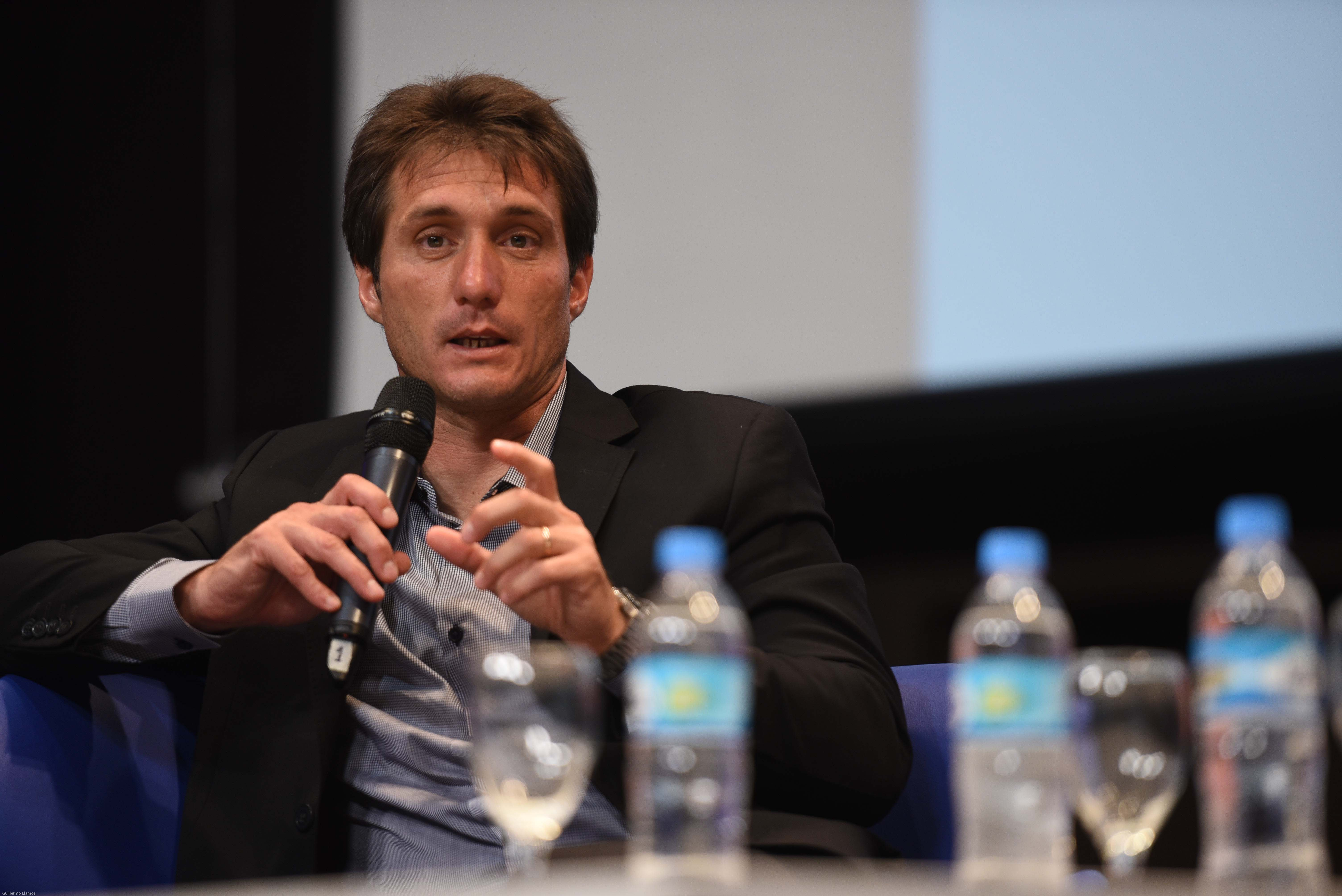 Guillermodandounacharla